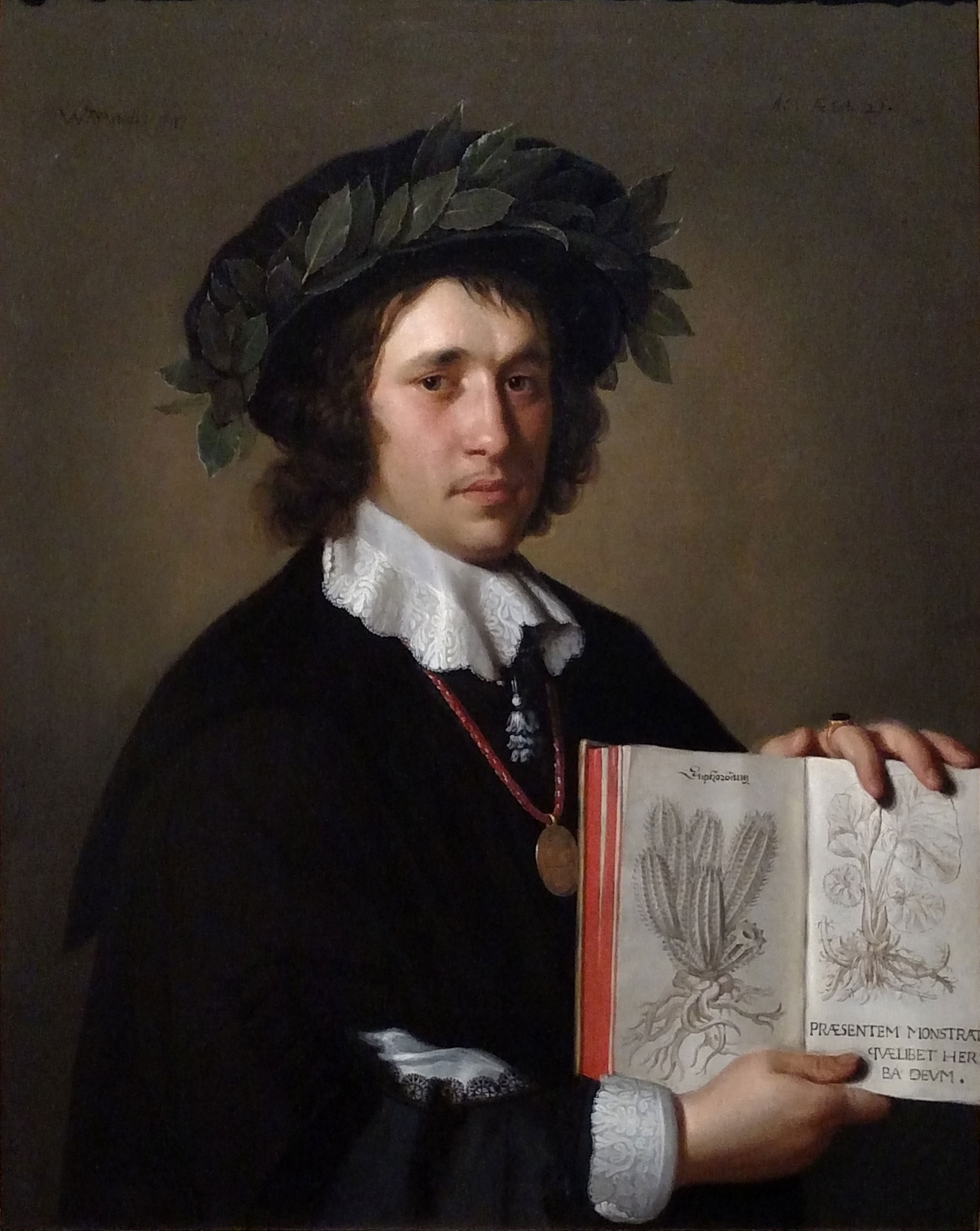 Portrait of an unknown Laureate Scholar, holding a book with a botanical description of the euphorbium herb and the words "praesentem monstrat quaelibet herba deum" (This herb points out the presence of God).